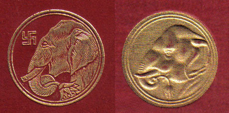 The elephant would be a reference to Airavat, the elephant of Indra, the king of the Hindu gods ( equivalent of the Greek deity Zeus , the elephant is seen carrying a lotus flower. It is the mount of Indra, and the Gaja ( Sanskrit word for elephant) or Gajaraj ( kingly elephant) was a respected and majestic figure associated with intelligence and wisdom and also fidelity. The deity Shiva's elder son, Ganesha ( the Roman Janus is similar ) has an elephant head and is associated with writing ( he is said to have personally helped in putting the epic "Mahabharata" into written script while its sage-composer Vyasa was narrating it aloud ), but the elephant-image shown in the seals on Rudyard Kipling's book is not Ganesha, it is Airavat.